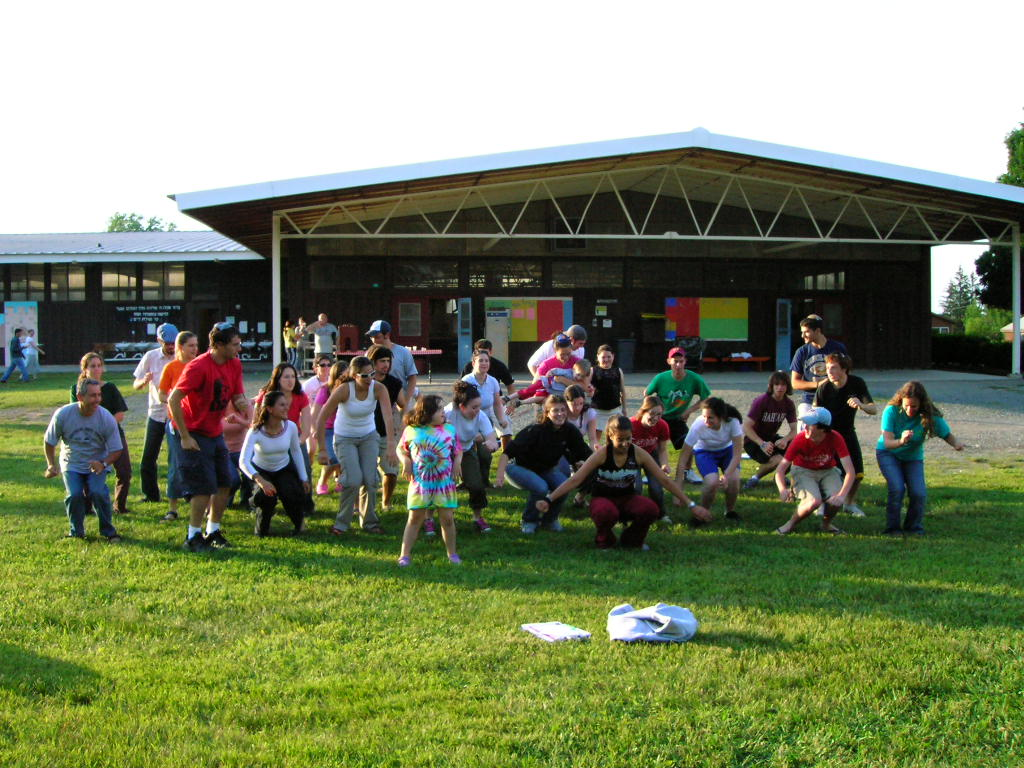 Ramah Poconos staff dancing in front of the dining hall.